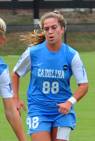 Emma Koivisto in Physical Battle vs UNC